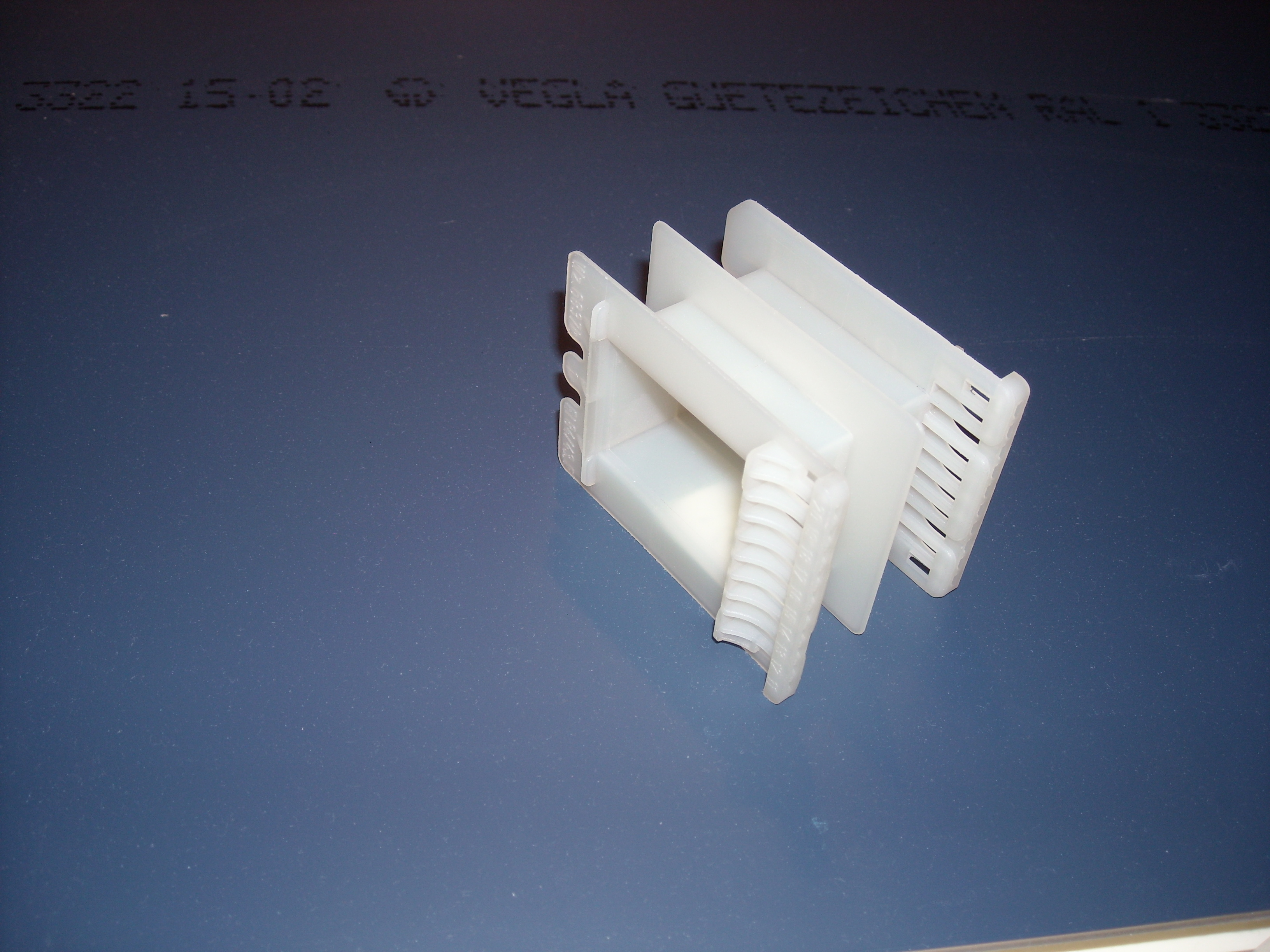 Coil frame/small transformer